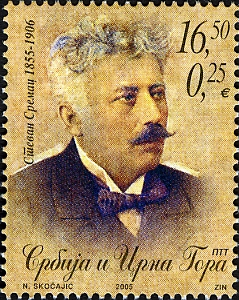 150 Years since the birth of Stevan Sremac